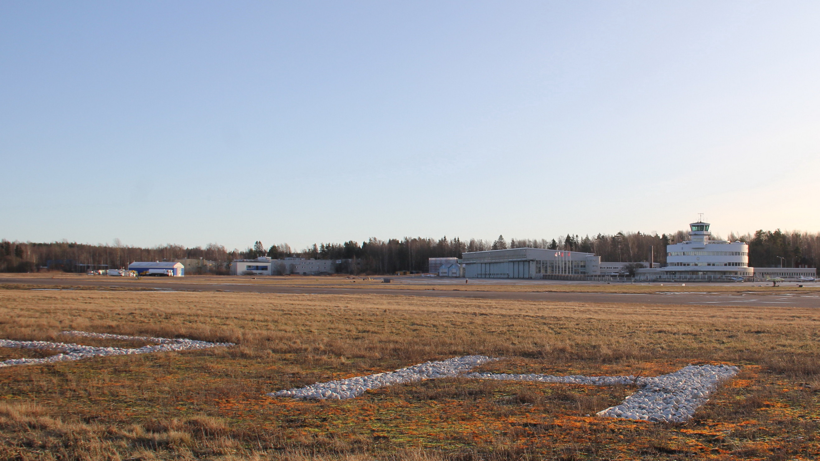 Helsinki-Malmi airport, Helsinki, Finland. - Restored HELSINKI text at airport, letters H and E visible. Background: terminal (right) and hangar (left).